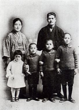 This picture is Kotora Tanahashi(1889-1973) and his family in 1933.